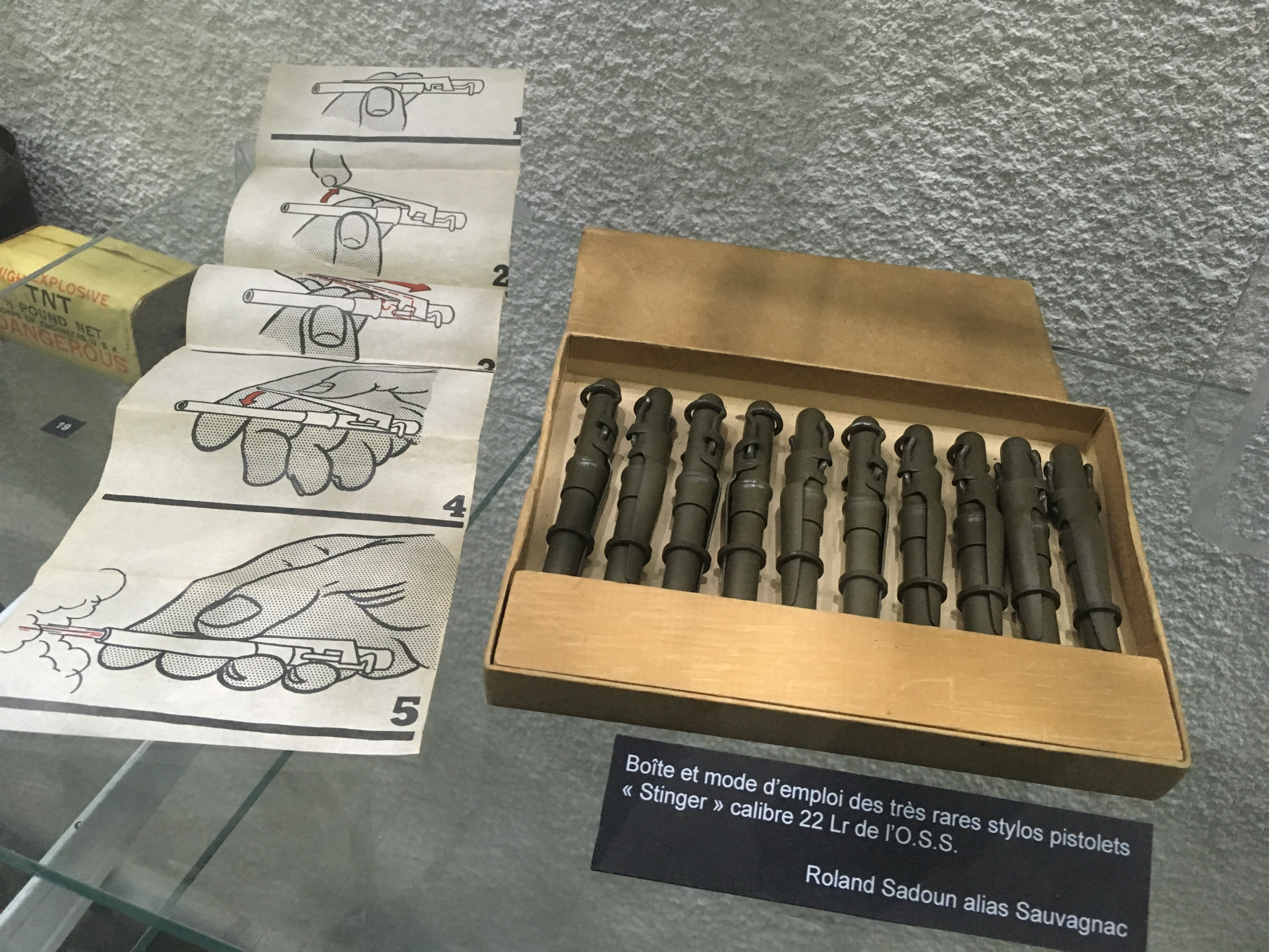 The Stinger pen gun set, caliber .22 LR, that was in inventory of the secret agents of Office of Strategic Services, now exhibited at the MKK Museum in Paris. The illustration on the left shows how the device is opperated: cocked and fired.